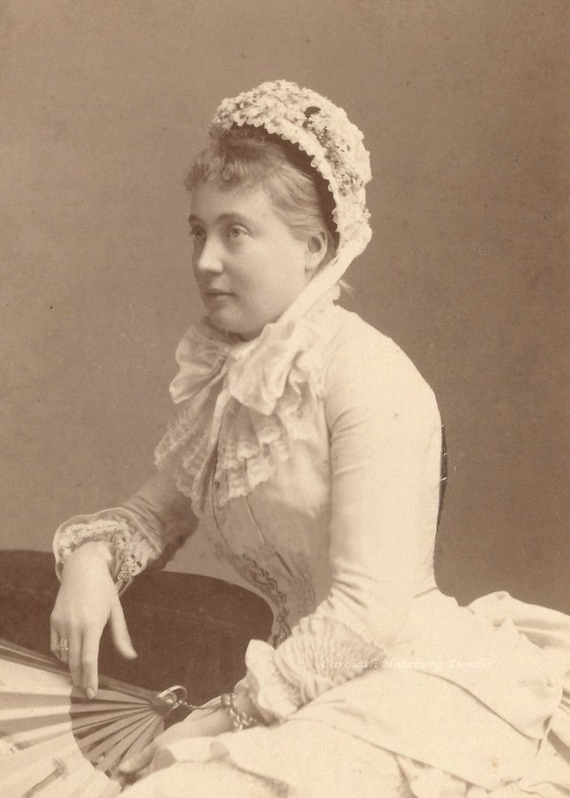 Princess Mathilde of Saxony (1863-1933)